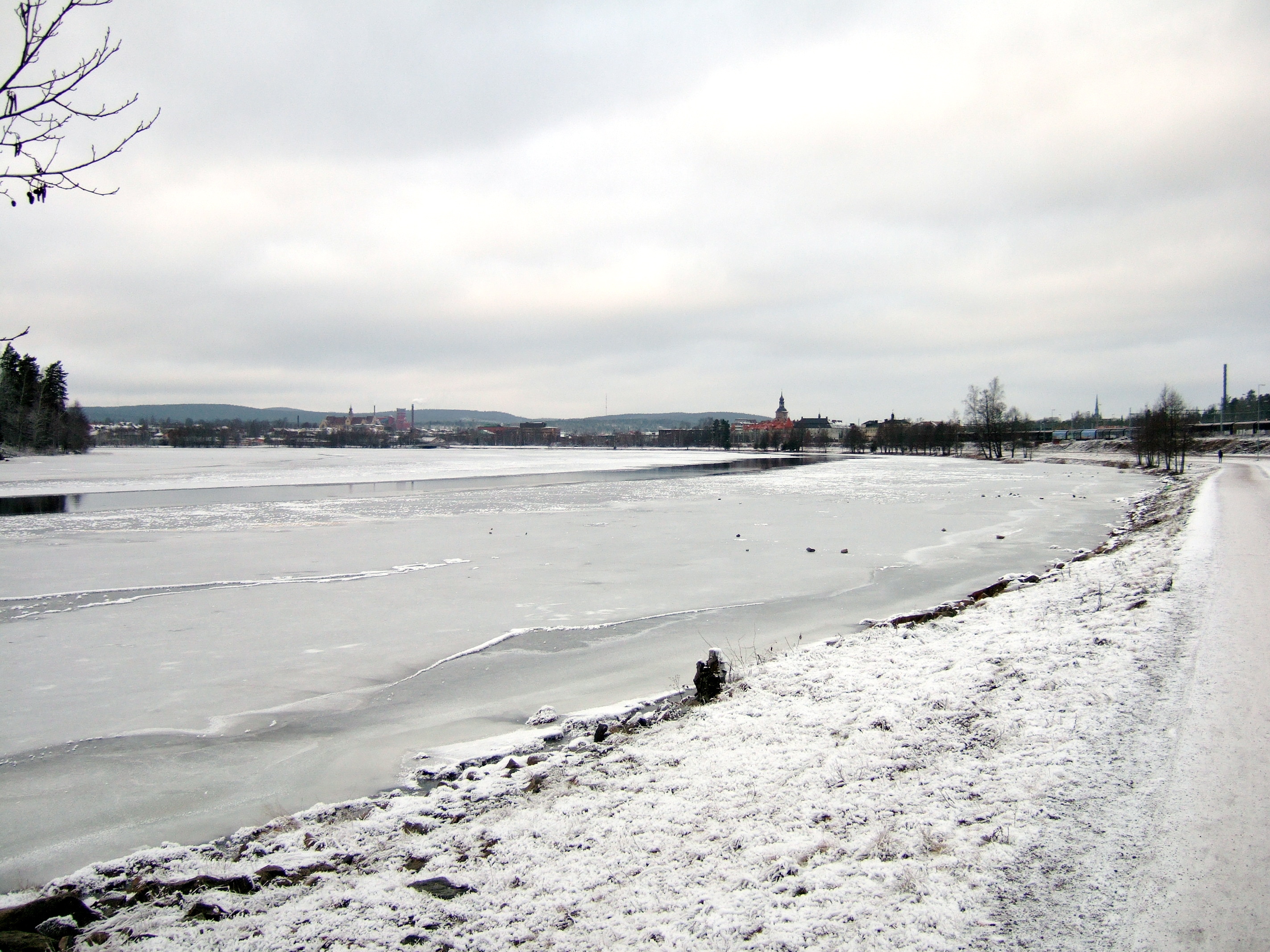 The lake of Tisken in Falun, Dalarna, Sweden. December 23, 2007.